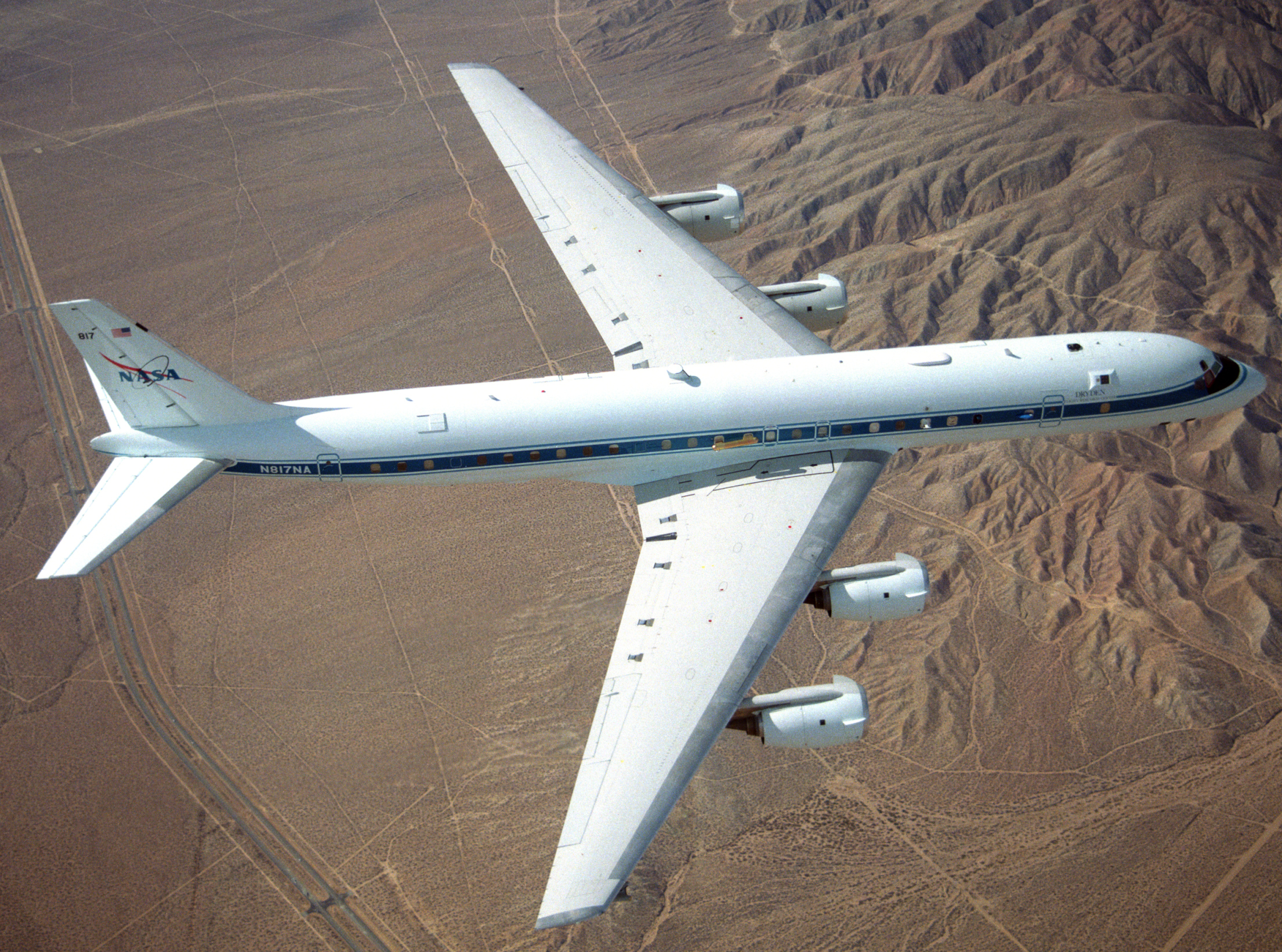 DC-8 Airborne Laboratory in flight.